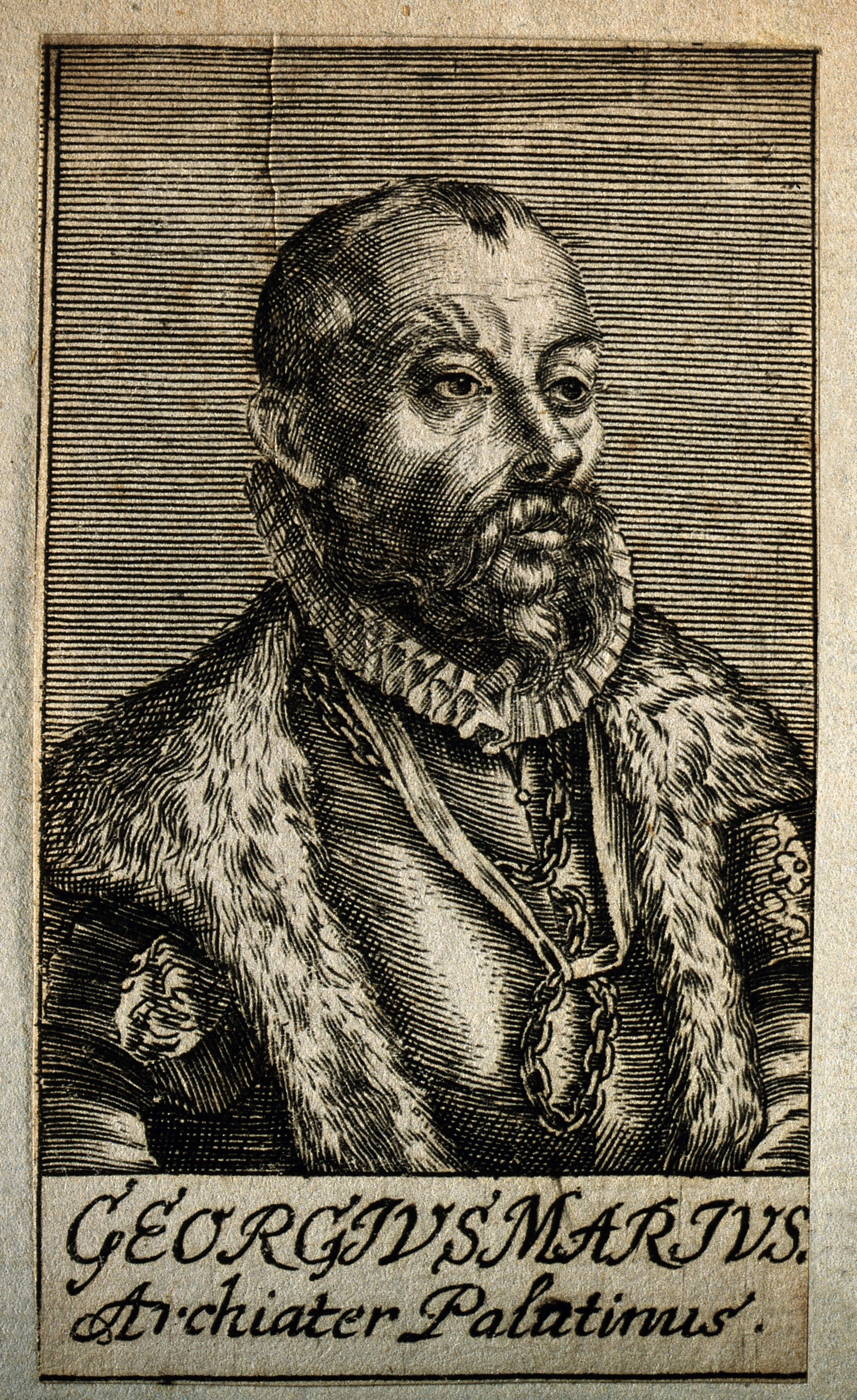 Georg Marius [Meier]. Line engraving, 1688. Iconographic Collections Keywords: portrait prints; engravings; Georg Marius